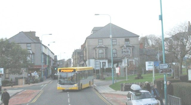 Bus stop at the centre of Criccieth. A number of people are waiting for the approaching bus at Y Maes bus stop. The yellow bus, (the No 1 two-hourly Caernarfon-Blaenau Ffestiniog Express Motors service), is turning into the A497, Pwllheli to Porthmadog road. In addition to the No 1 service, both Arriva and Express Motors operate frequent services between Pwllheli and Porthmadog. The bus is EM07 ORS.